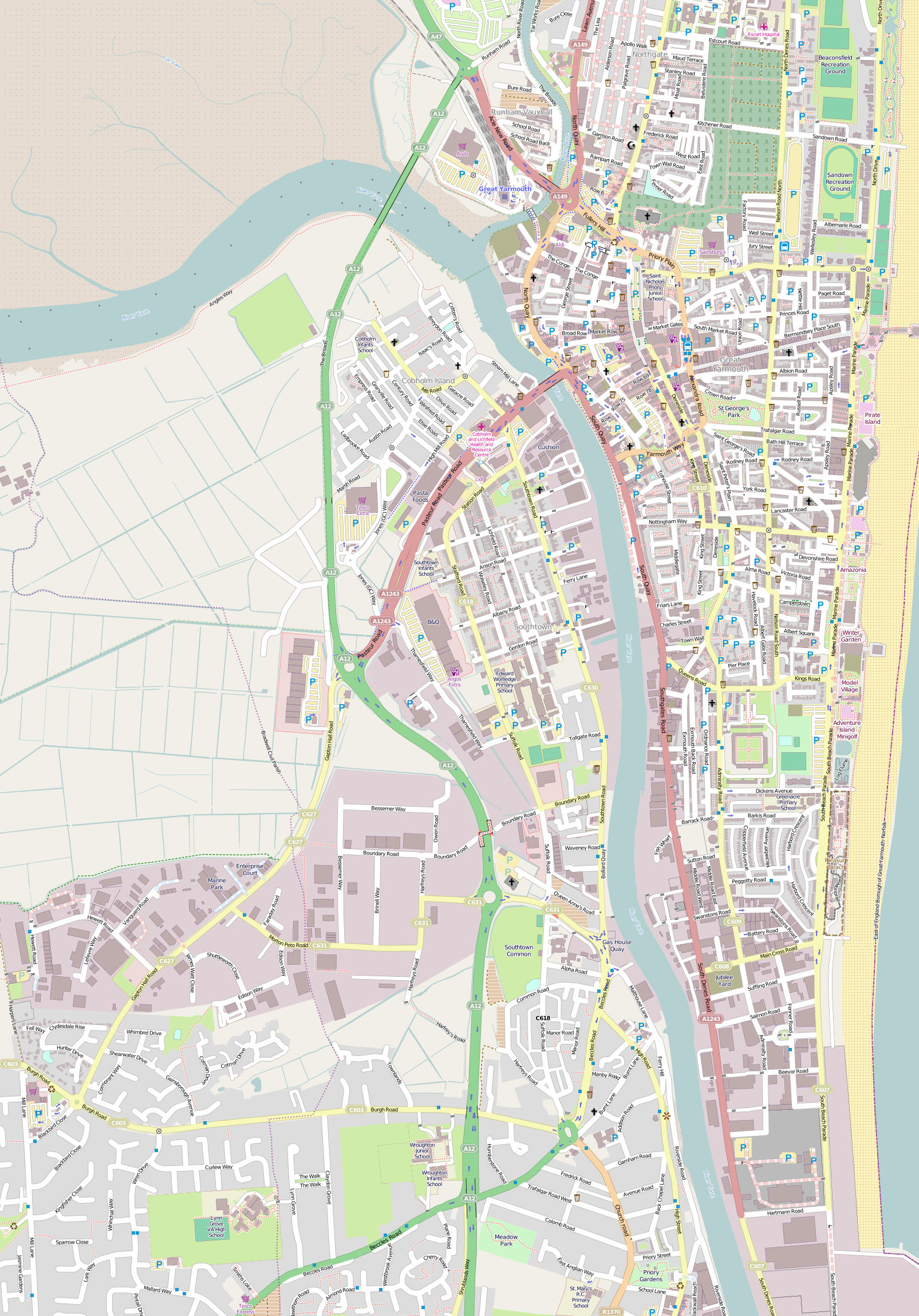 Map of Great Yarmouth N: 52.6163° S: 52.5829° W: 1.7065° E: 1.7516°